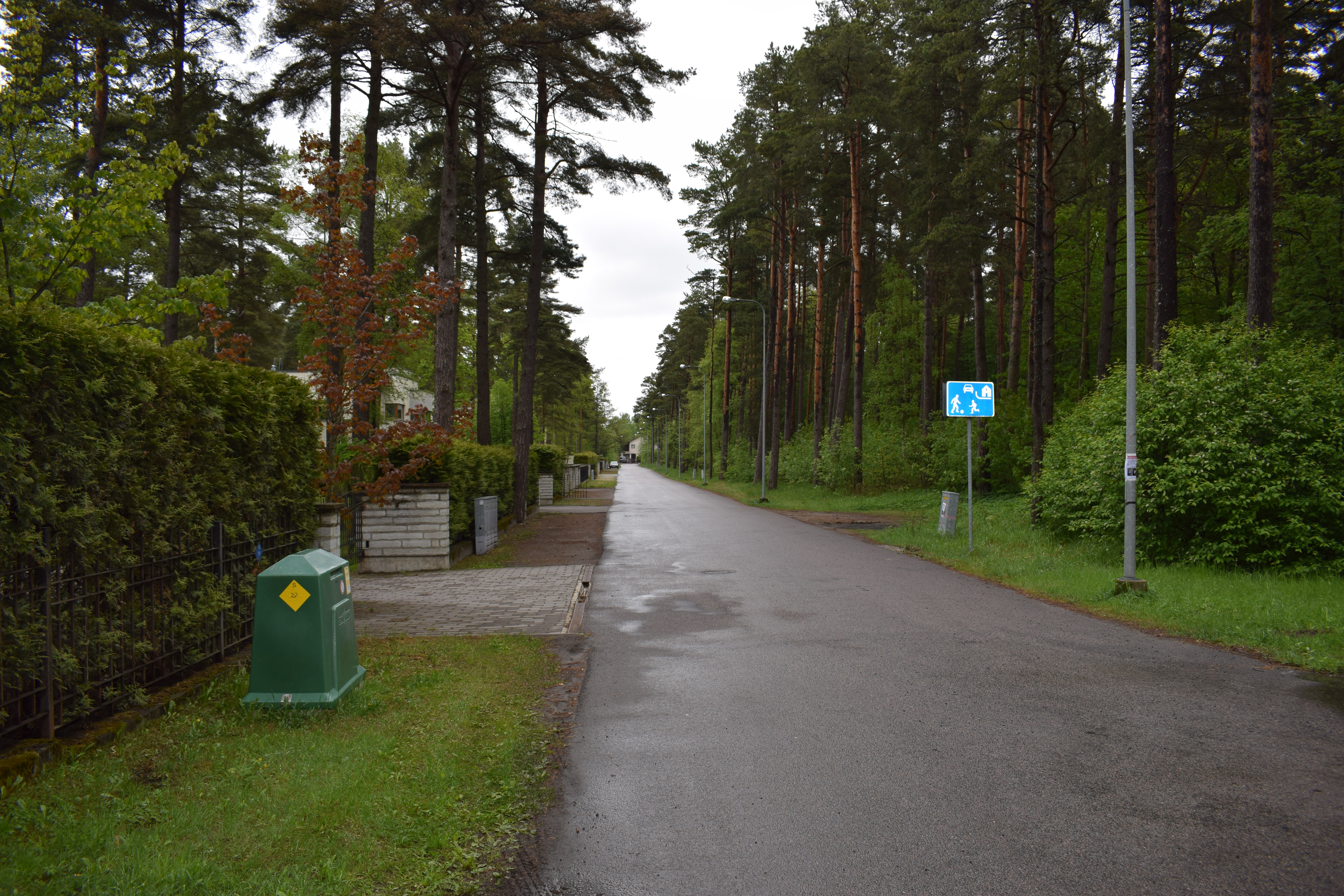 Kuusenõmme tee